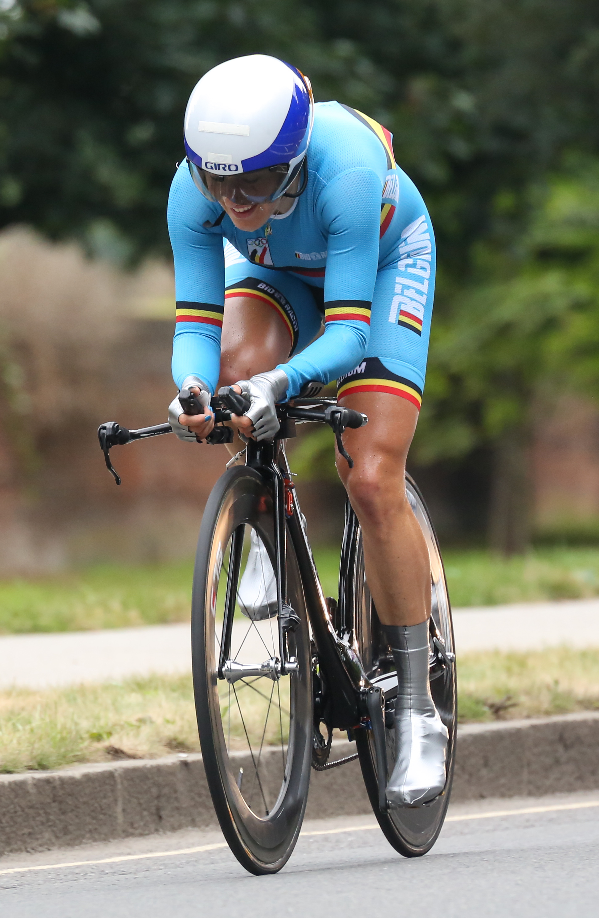 Liesbet De Vocht competing in the London 2012 Women's Olympic Time Trial.